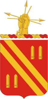 42d Field Artillery coat of arms from [1]